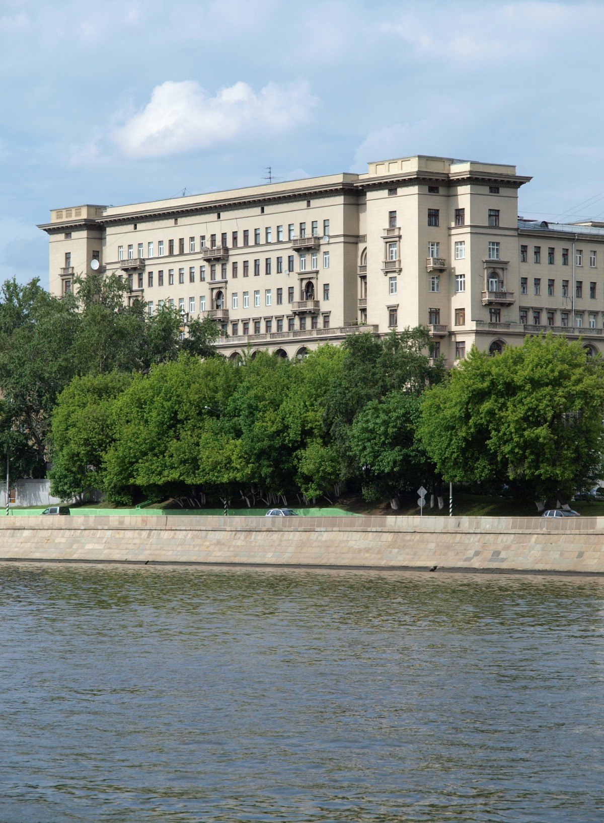 Kotelnicheskaya Embankment, Moscow.